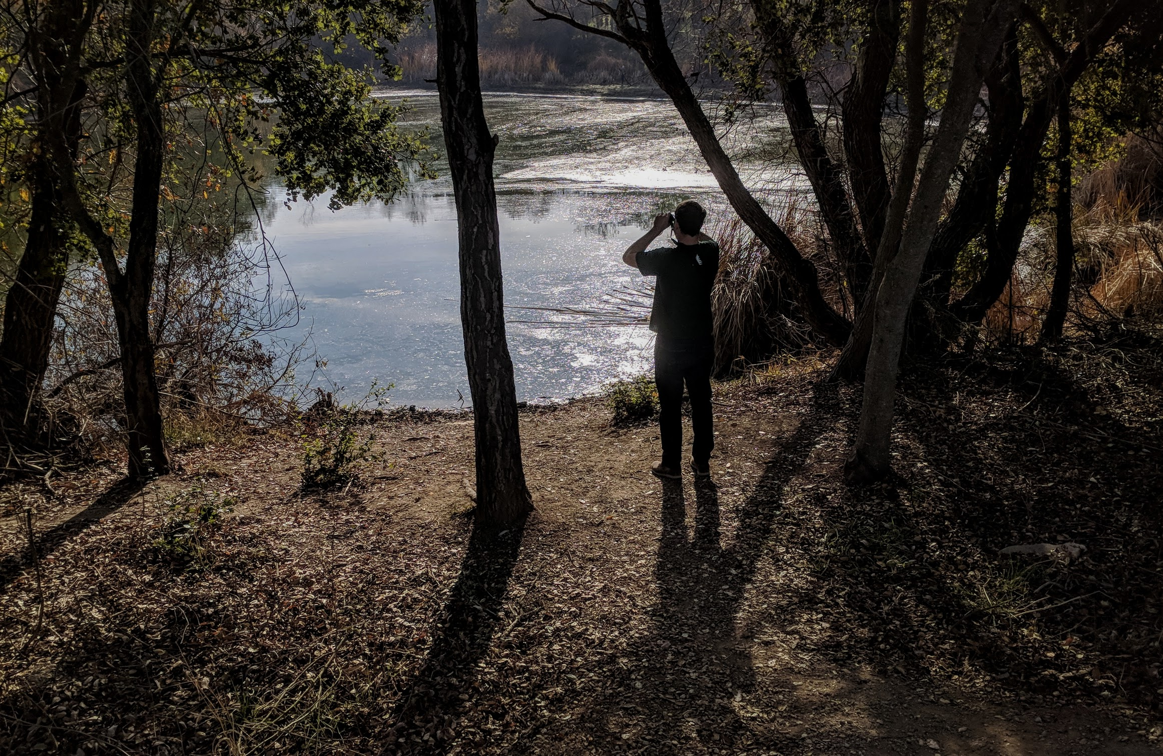 Looking at water birds on the lake at Arastradero Preserve